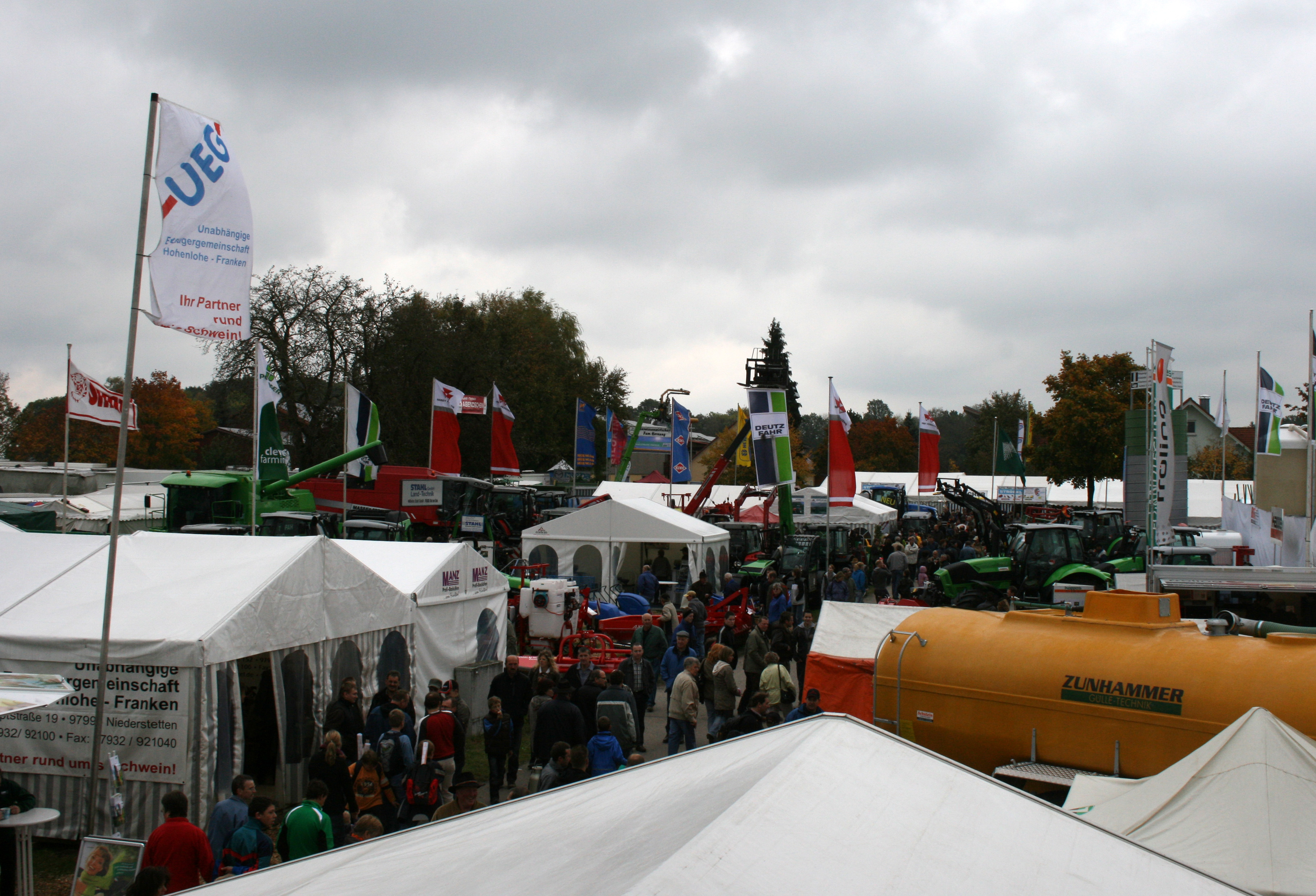 County Fair Muswiese at Musdorf, Rot am See, Hohenlohe, Germany